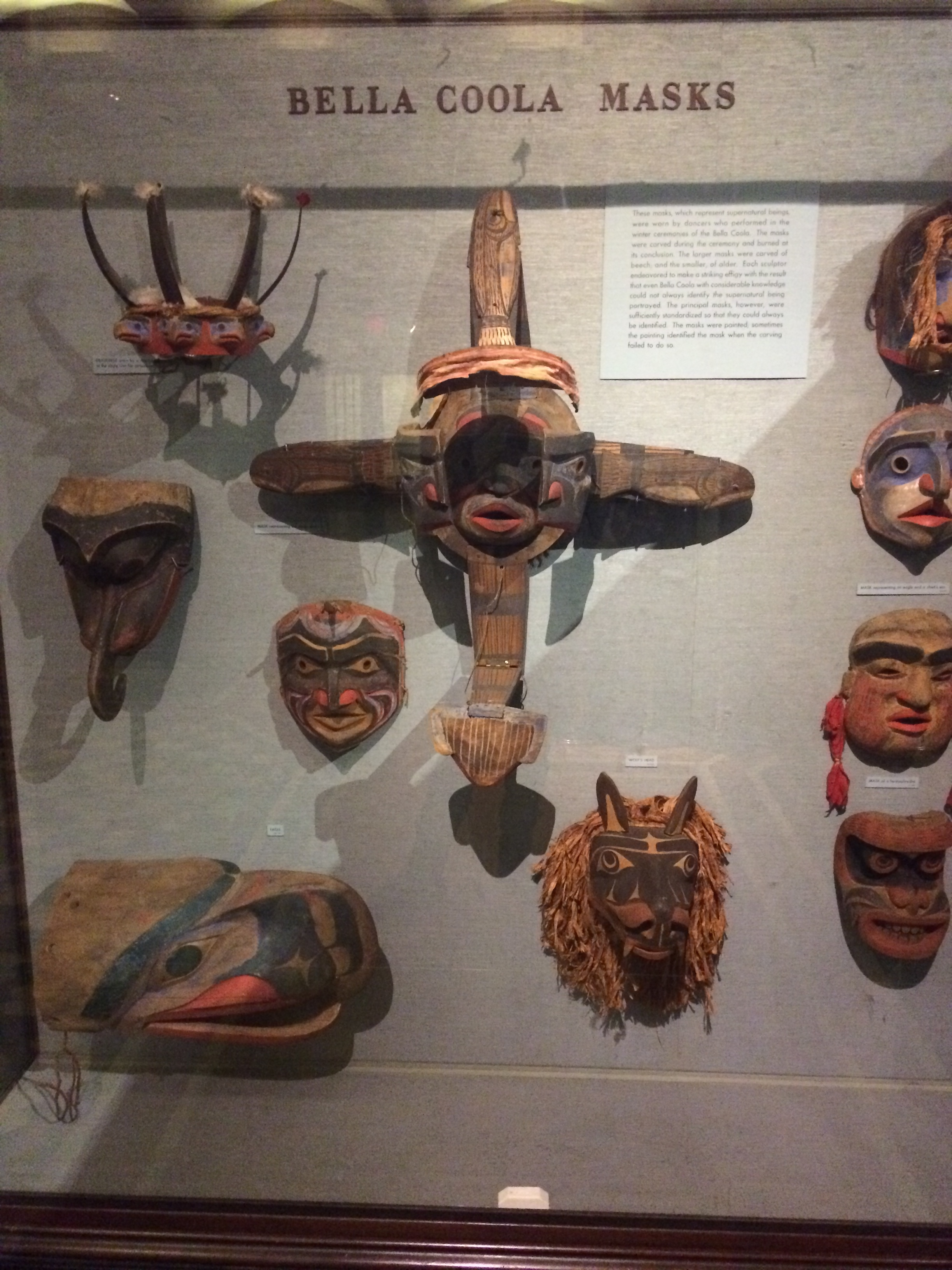 Nuxalk Masks (listed as Bella Coola) in the Hall of Northwest Coast Indians, American Museum of Natural History